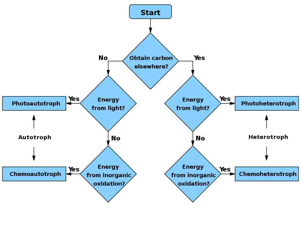 A flowchart to determine if a species is autotroph, heterotroph, or a subtype. Improved version of Troph flowchart.svg, which has faults.